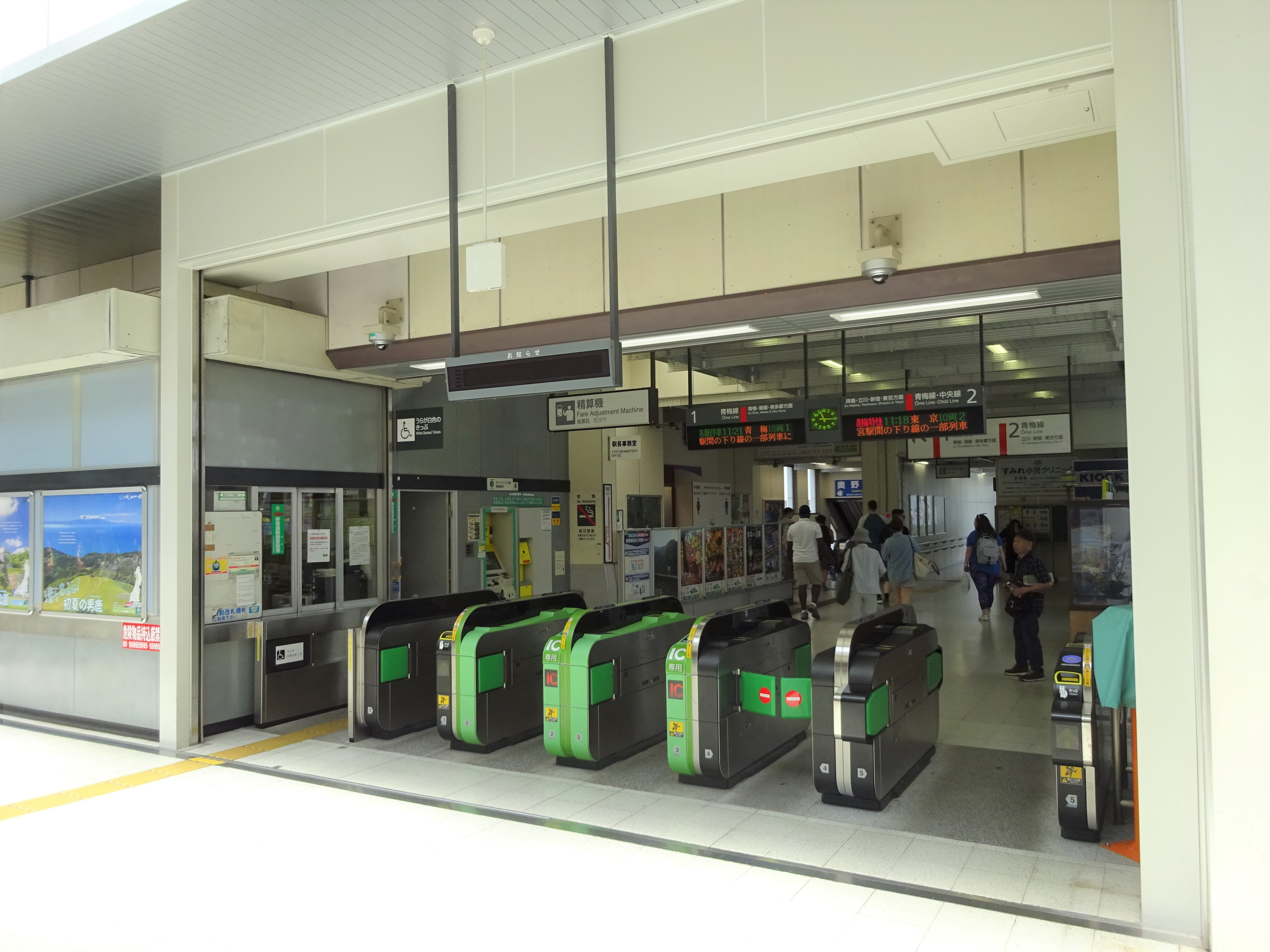 The ticket barriers at Fussa Station in Tokyo, Japan